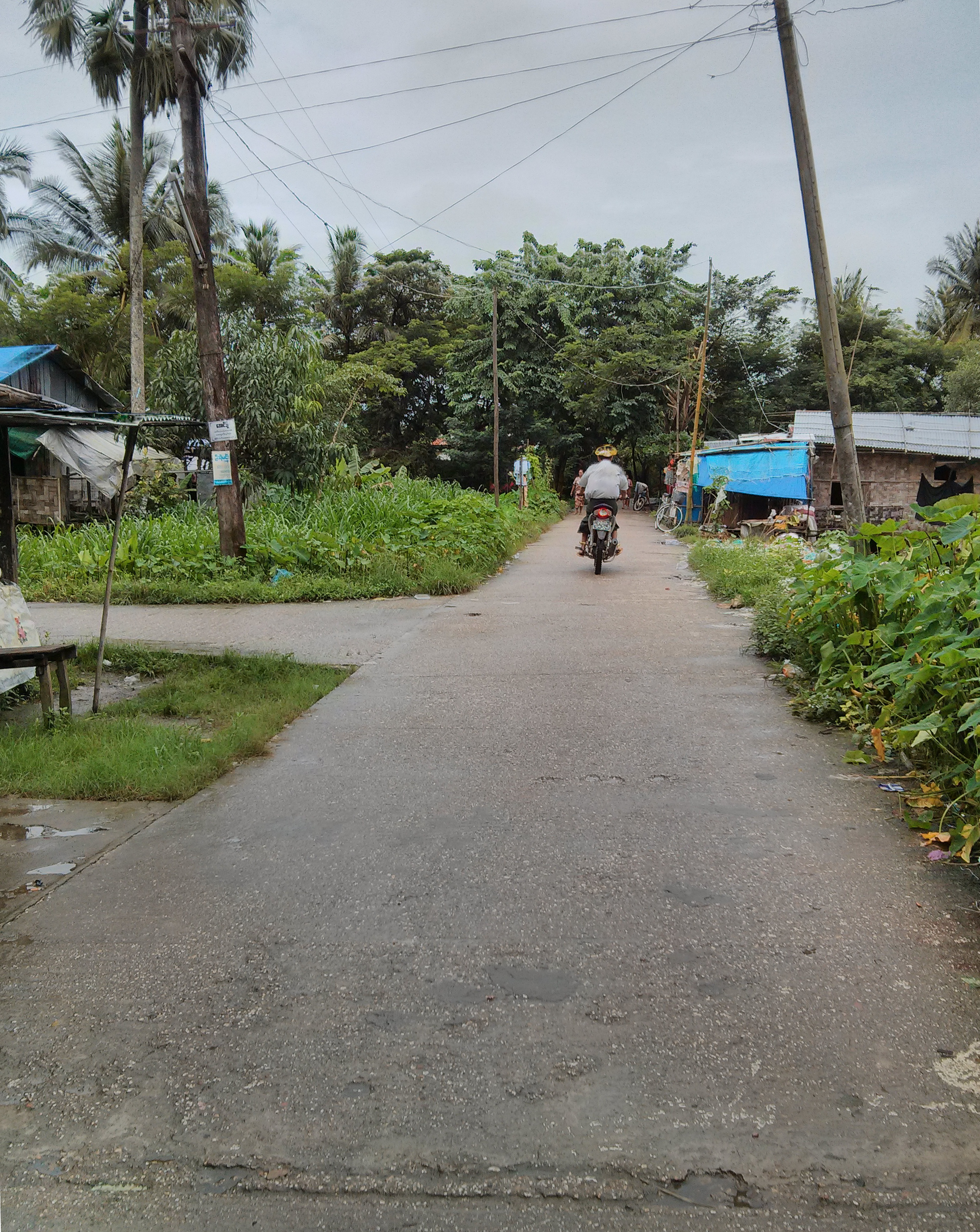 Description see title